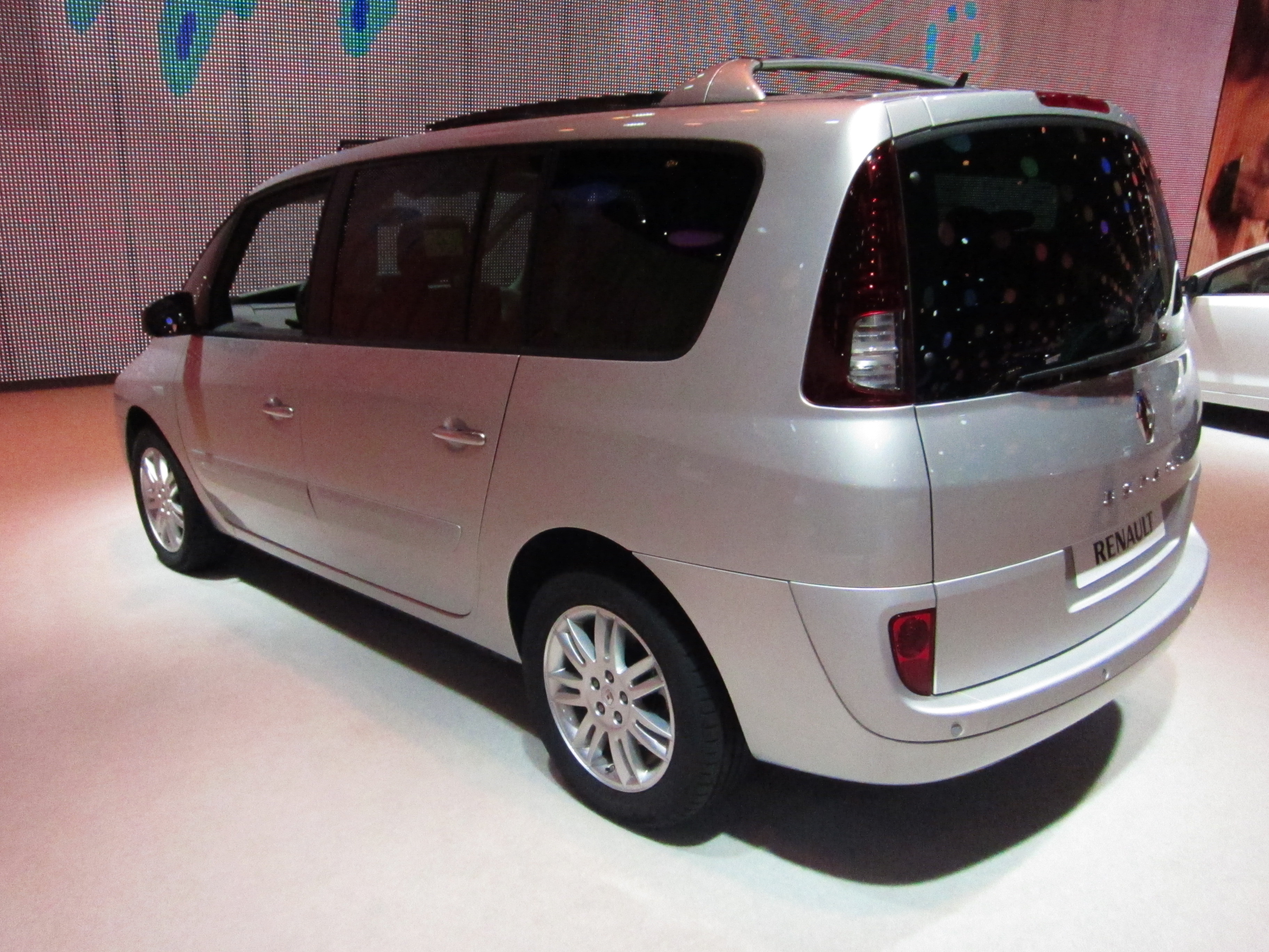 Renault Espace facelift at Mondial de l'Automobile Paris 2012